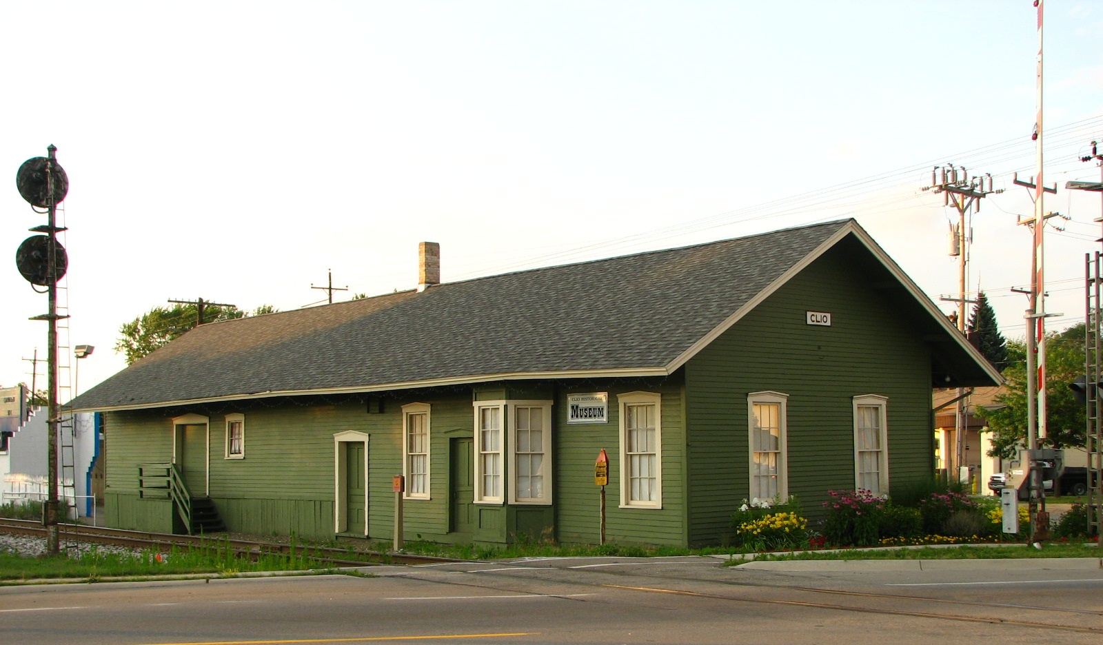 The historic Clio Depot at 300 West Vienna Road in Clio, Michigan, United States, is listed on the US National Register of Historic Places.